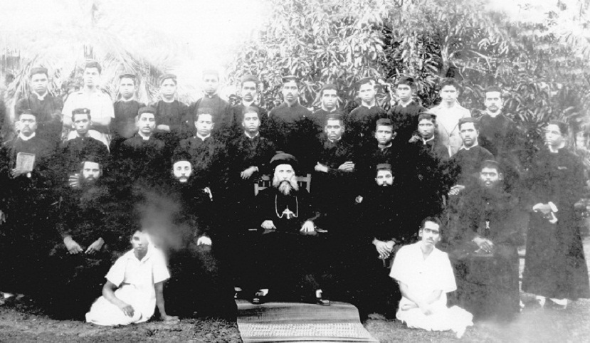 St. Ignatius Seminary, Manjinikkara, Omalloor, India in 1930s end Elias Mar Eulios Founder of the Seminary (Sitting Middle). Fr. Abdul Ahada Rabban (later Patriarch Mar Ignatius Yacub III) and Fr. V.C. Samuel Malpan (left and right of Mar Eulios)